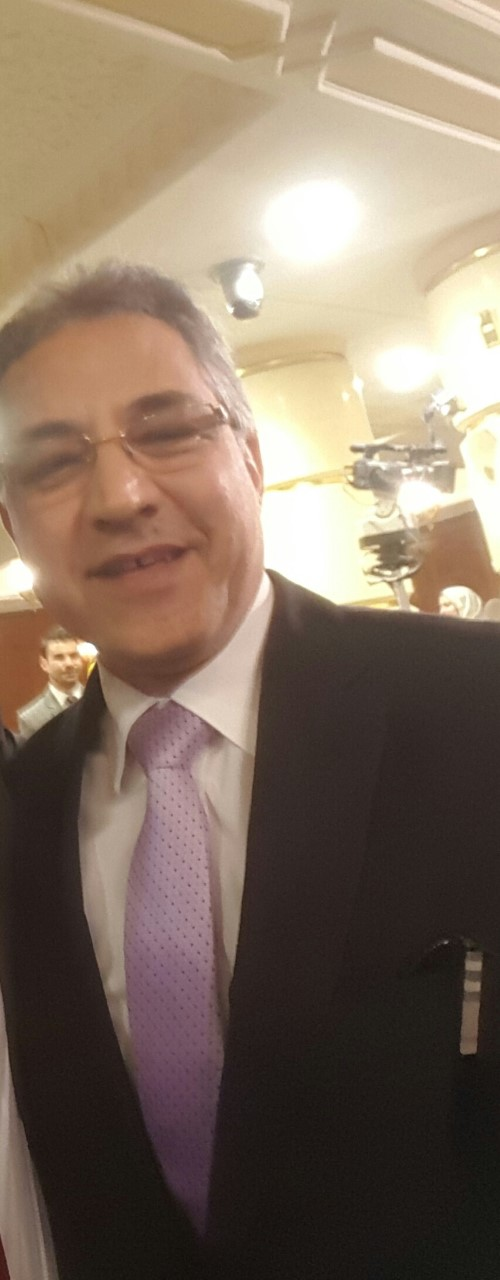 Ahmed Gamal Hafez El Segini